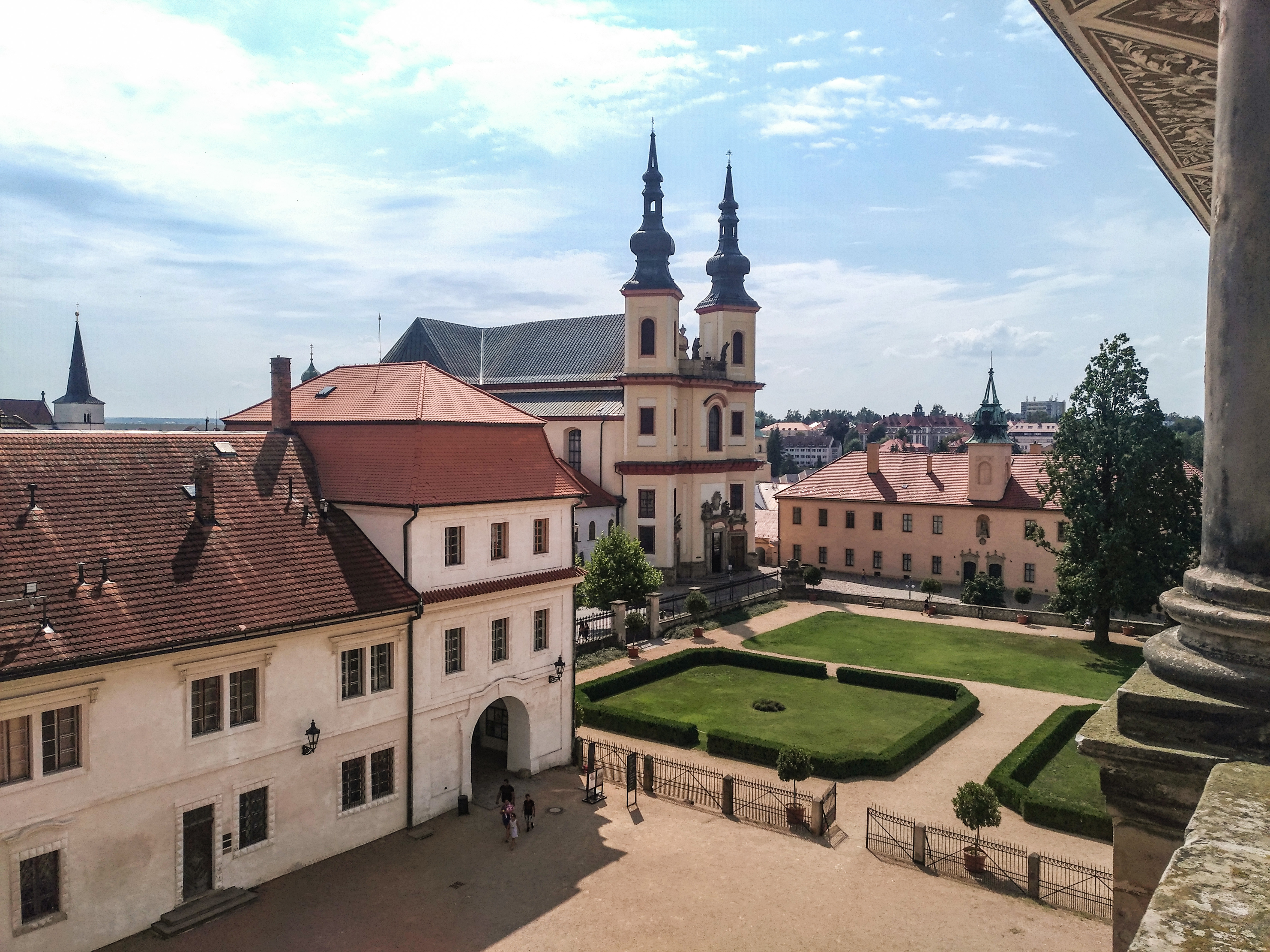 View from Litomyšl Castle arcades: Piarist church and gymnasium Аҧсшәа: Výhled z arkád zámku v Litomysli: Kostel Nalezení svatého Kříže a piaristické gymnázium